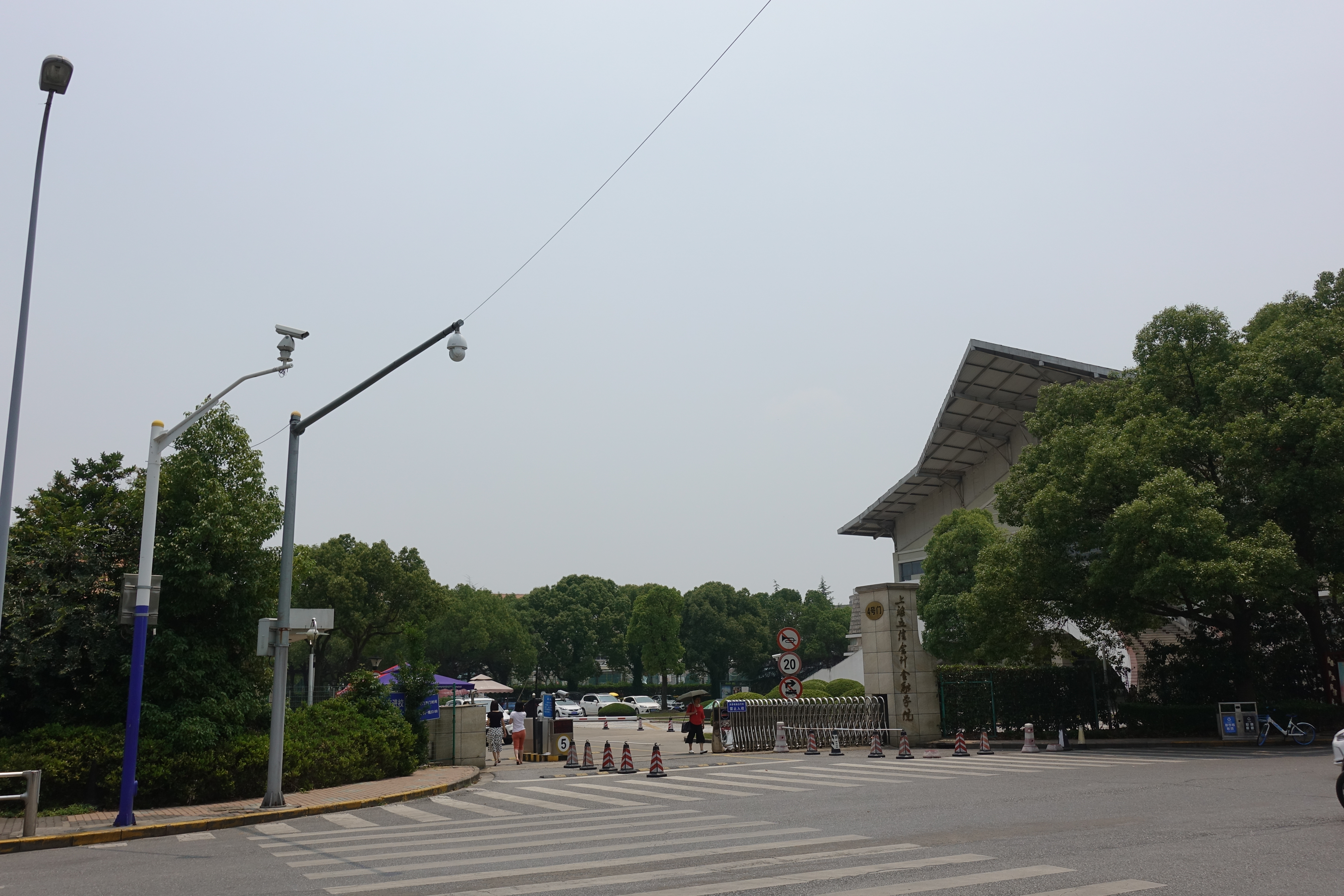 Shanghai Lixin University of Accounting and Finance